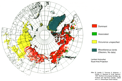 distribution of Cryosols in the northern hemisphere